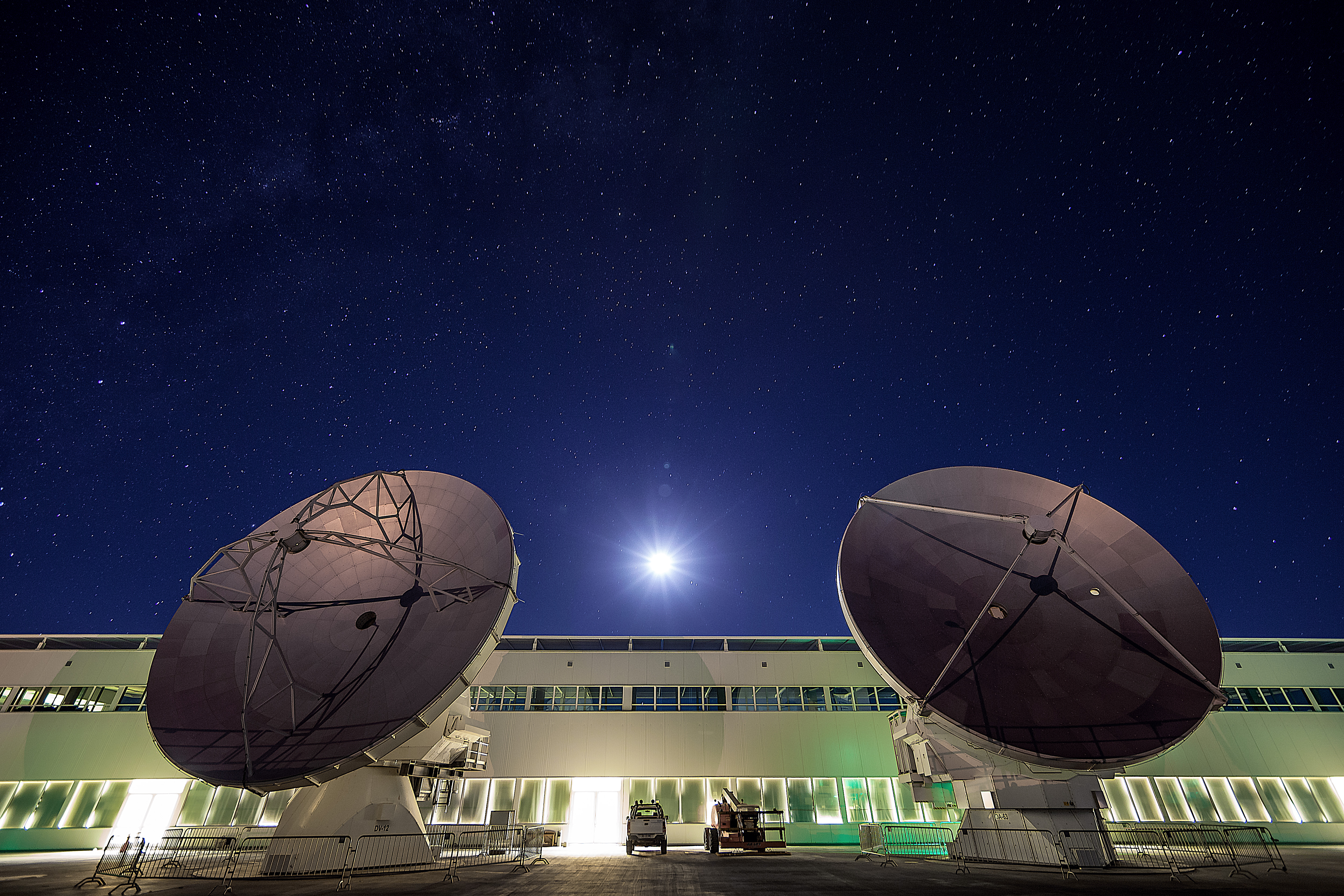 This image shows the Operations Support Facility (OSF) for the Atacama Large Millimeter/sub-millimeter Array (ALMA) with the dazzling Moon above and two 12-metre antenna dishes in the foreground. The OSF, located at 2900 metres above sea level in the Chilean Andes, is a hub of ALMA-related activity. As well as housing staff and contractors, the facility hosts all the scientific operations related to the array’s daily operation. The two antennas pictured here, for example, were brought back from their observational site to check their functionality as they sit on special calibration pads. Such tests check the computers and motors and ensure that the antenna surfaces are accurate to less than the thickness of a human hair, and can be pointed precisely enough to spot a golf ball sitting 15 kilometres away. Once these antennas have completed their check-up, they will rejoin their counterparts on the Chajnantor Plateau at 5000 metres above sea level. Weighing around 100 tonnes each, they will return to the high plateau on the two huge custom-designed ALMA transporters. Known as Otto and Lore, these mammoth machines will — at a top speed of 12 kilometres per hour — move the antennas back to their observing positions, where they will again help to explore the mysteries of the Universe.